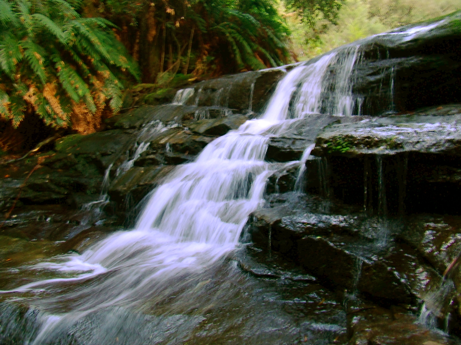 Waterfall near Katoomba in the Blue Mountains Australia about an hours travel from sydney